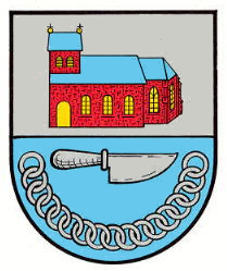 Coat of arms of Immesheim